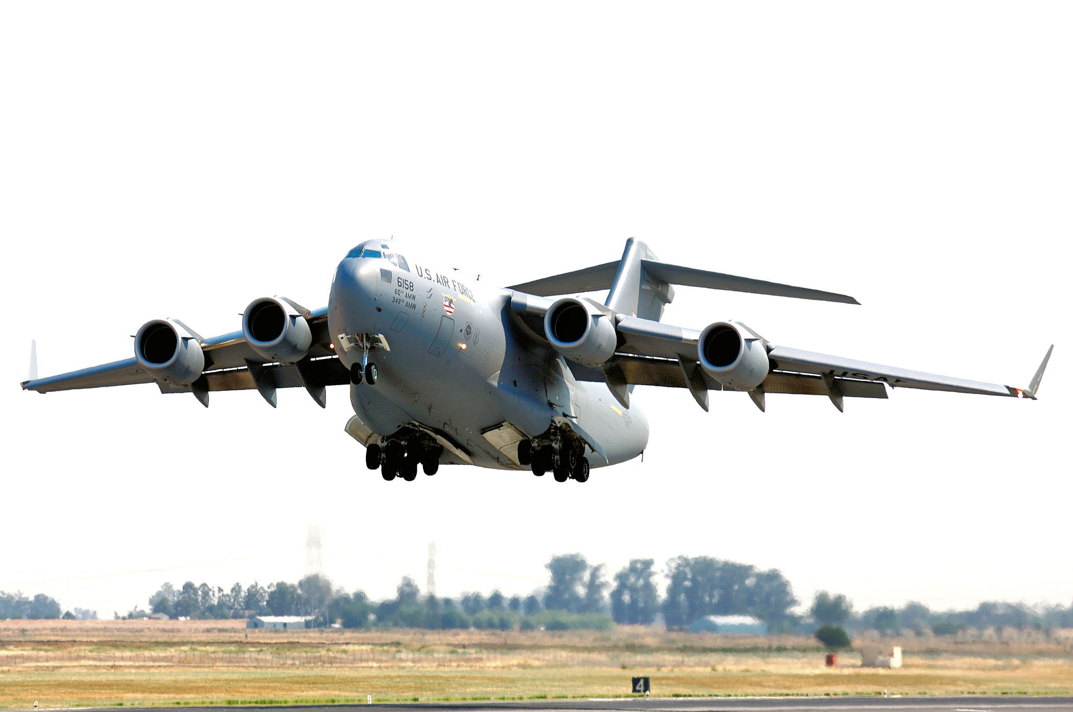 TRAVIS AIR FORCE BASE, Calif. -- Off we go: This C-17 takes off from the Travis flightline, Jun. 13. Staff Sgt. Robert Rossman, 70th Air Refueling Squadron and Master Sgt. Rob Tabor, 60th Operation Support Squadron, volunteered to take some photographs for the 301st Airlift Squadron to use around the squadron and for mission briefing power point presentations. These photos, along with other great aircraft photos are available for use on the 349th wing shared drive. (U.S. Air Force photo/Master Sgt. Rob Tabor)